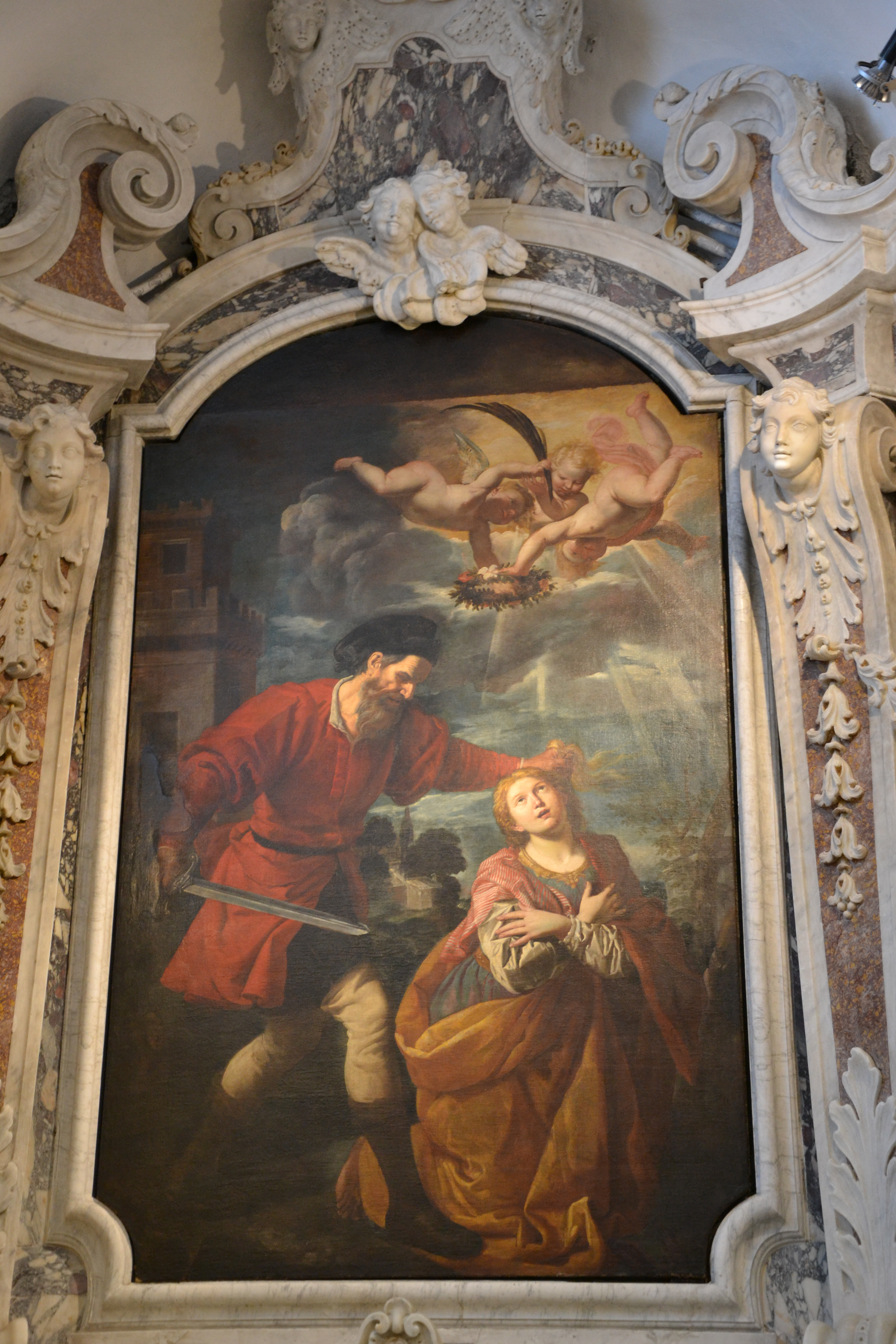 The Martyrdom of Saint Barbara, Domenico Fiasella (1622), church of San Marco al Molo (Genoa)